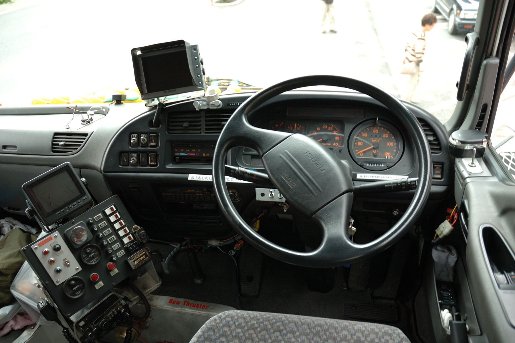 Driver's seat of Amphibious Bus Challenger in Roadside Station Yunishigawa, this photo taken in August 3, 2007